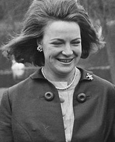 Prinses Irene van Bourbon-Parma